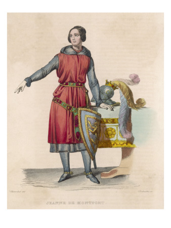 Joanna of Flanders